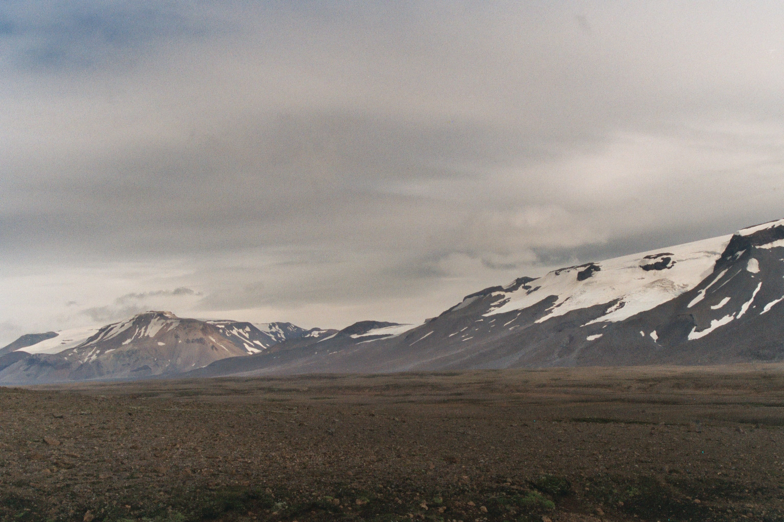 Langjökull, Kaldidalur, Iceland. Image size: 1536 x 1024, aerial photography digitalized from a silver film.